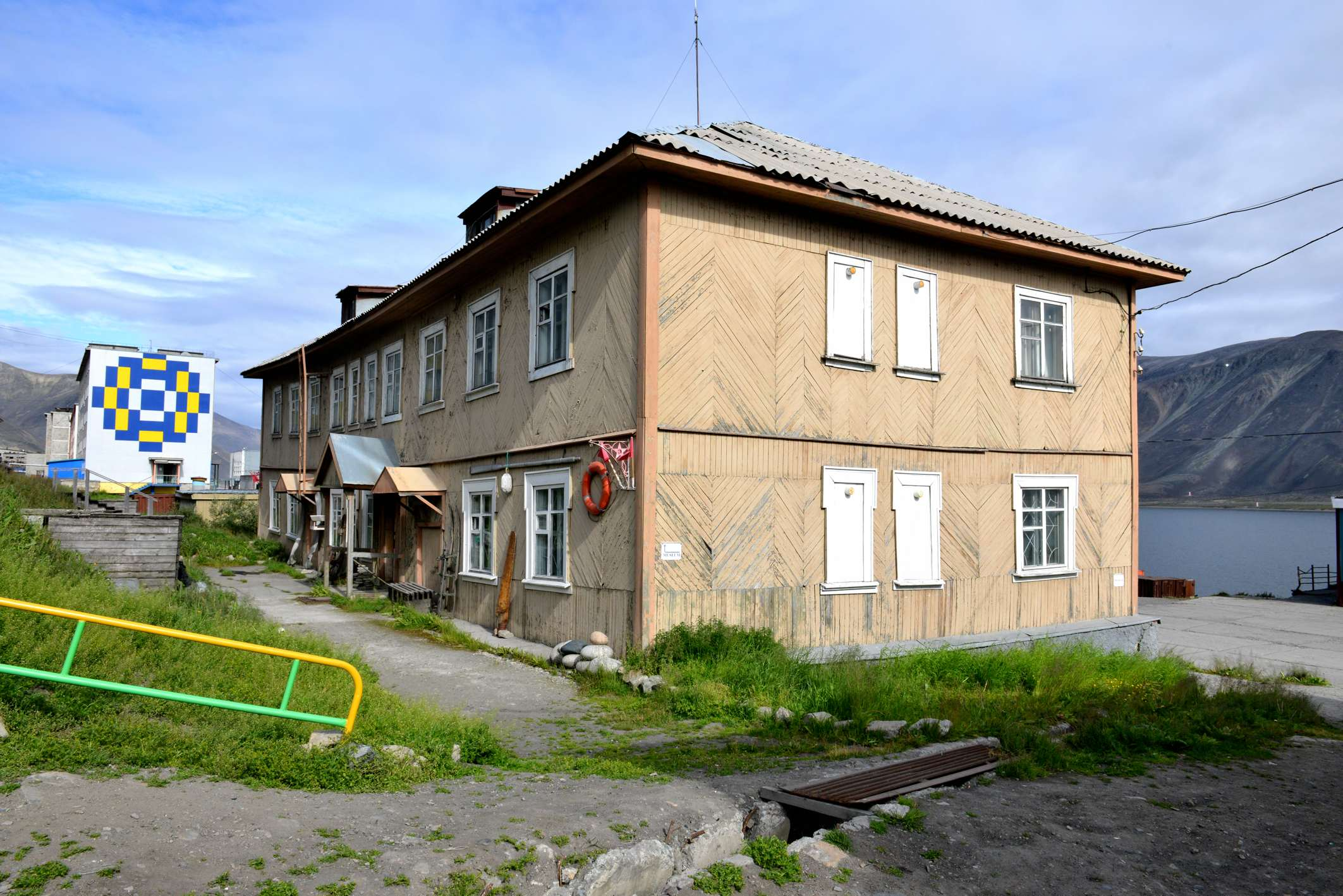 Provideniya (Chukotka, Russia; 64°25’30’’N, 173°13’30’’W), Museum